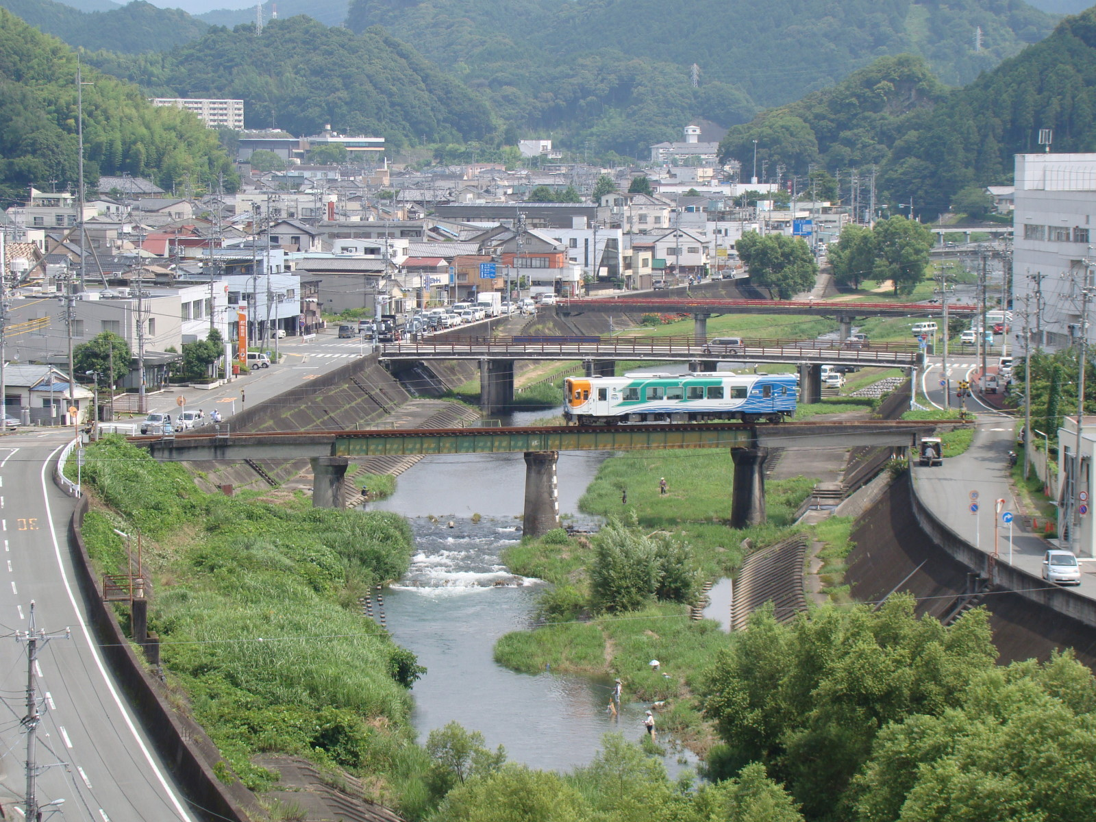 Futamatagawa river in Tenryu Hamamatsu-city Shizuoka-pref Japan